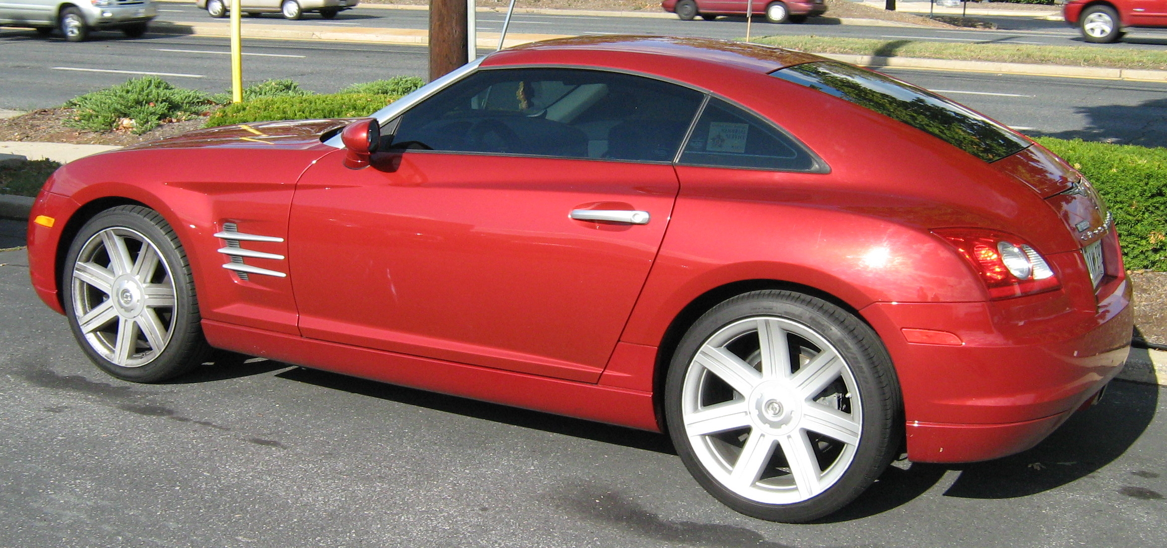 Chrysler Crossfire Red Coupe side view - a two-seat fastback.